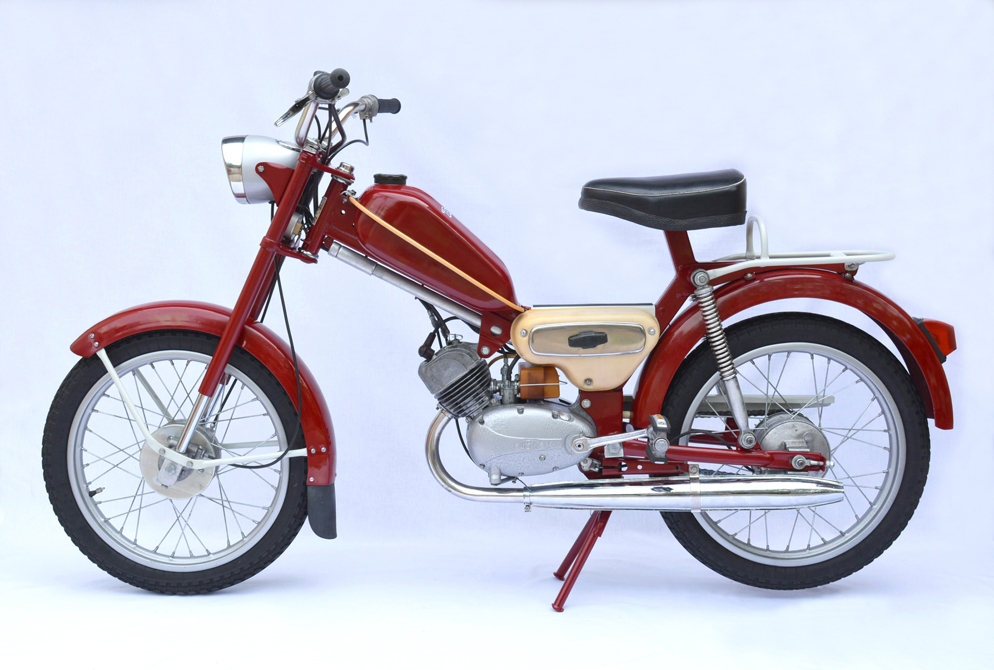 USSR moped Werhowina-3 (1970-1973)